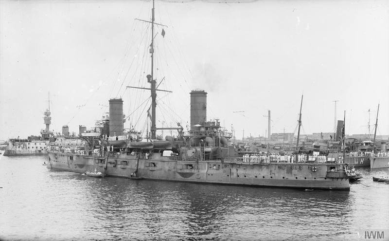 Photo of Japanese armored cruiser Nisshin in Port Said, 27 October 1917